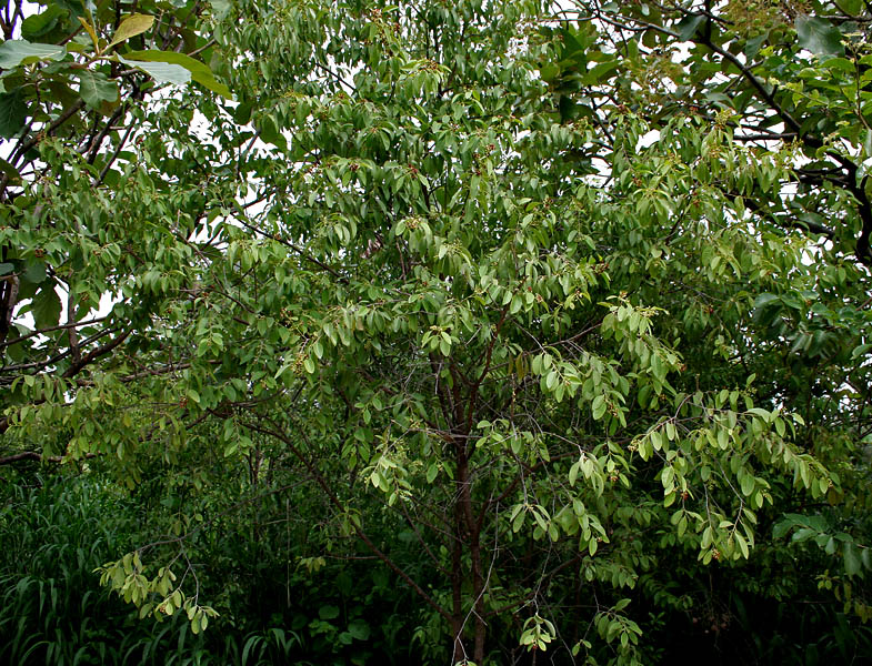 White or East Indian Sandalwood or Chandan Santalum album in Hyderabad , India.